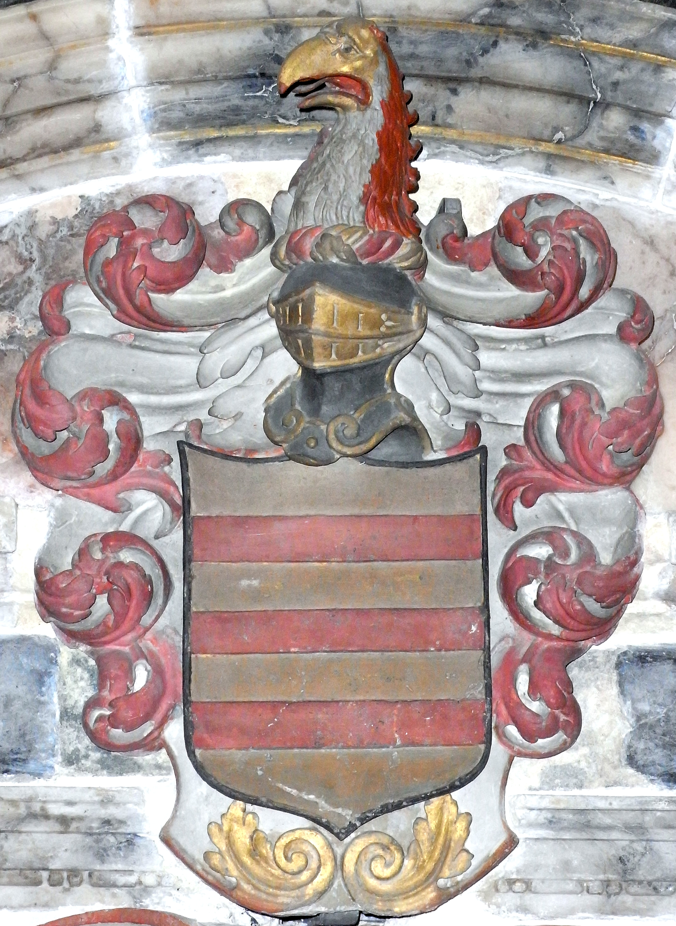 Heraldic achievement of Rev. Daniel Berry (1609-1654), vicar of Molland cum Knowstone, on mural monument in Molland Church, Devon, erected in 1684 by his son Admiral Sir John Berry (1635-1689). Arms: Or, three bars gules, which arms are depicted on the mural monument in Berrynarbor Church of Richard Berrie Esq. (1582-1645), lord of the manor of Berrynarbor. Crest: A mythical bird's head and neck couped per pale argent and gules beaked or